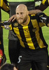 Marcelo Novick player posing for cameras before the start of the group phase game between Peñarol and Vélez Sarsfield in the Centenario stadium in Montevideo, Uruguay.